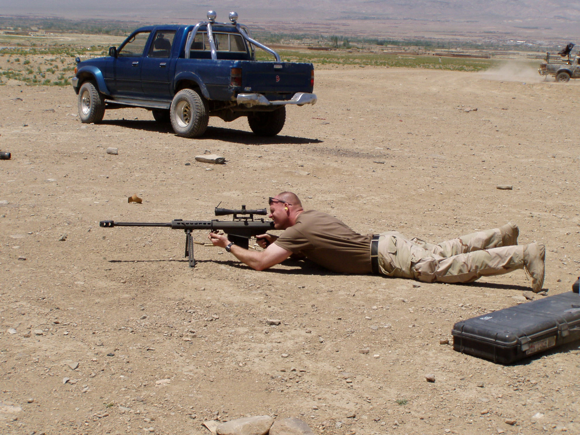 A US Navy EOD Commander fires an M82A1 on a mission in Afghanistan